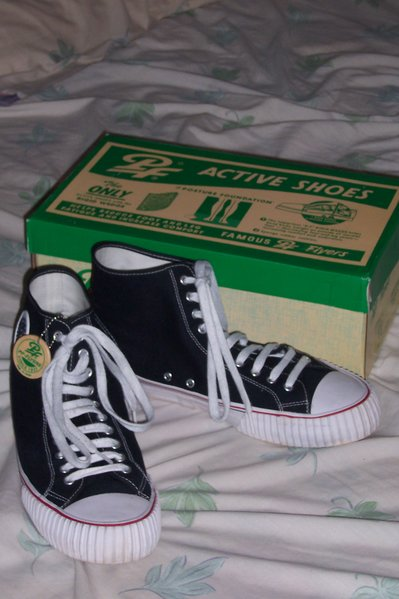 From en: image description at Image:100 0483.JPG I, Nicholas Seaks, took this photograph on January 1st, 2006. It is of a pair of PF Flyers Center High Re-Issue sneakers, with black canvas.